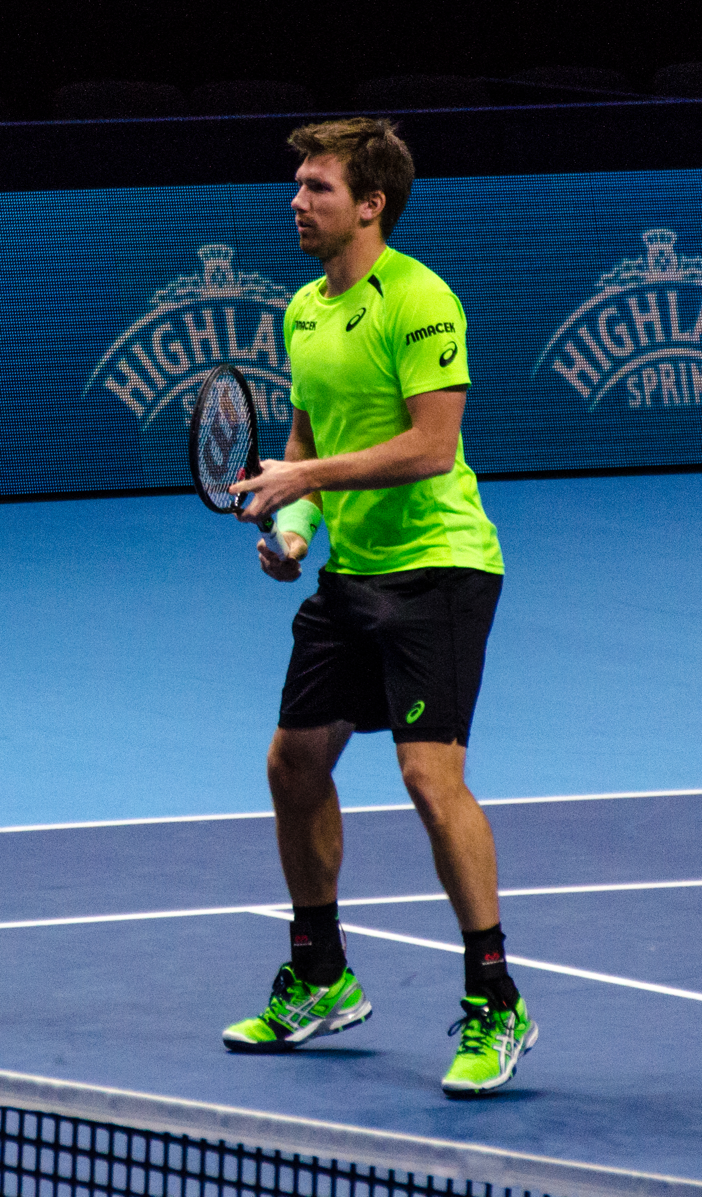 This is a photo of a tennis game at the ATP World Tour Finals.